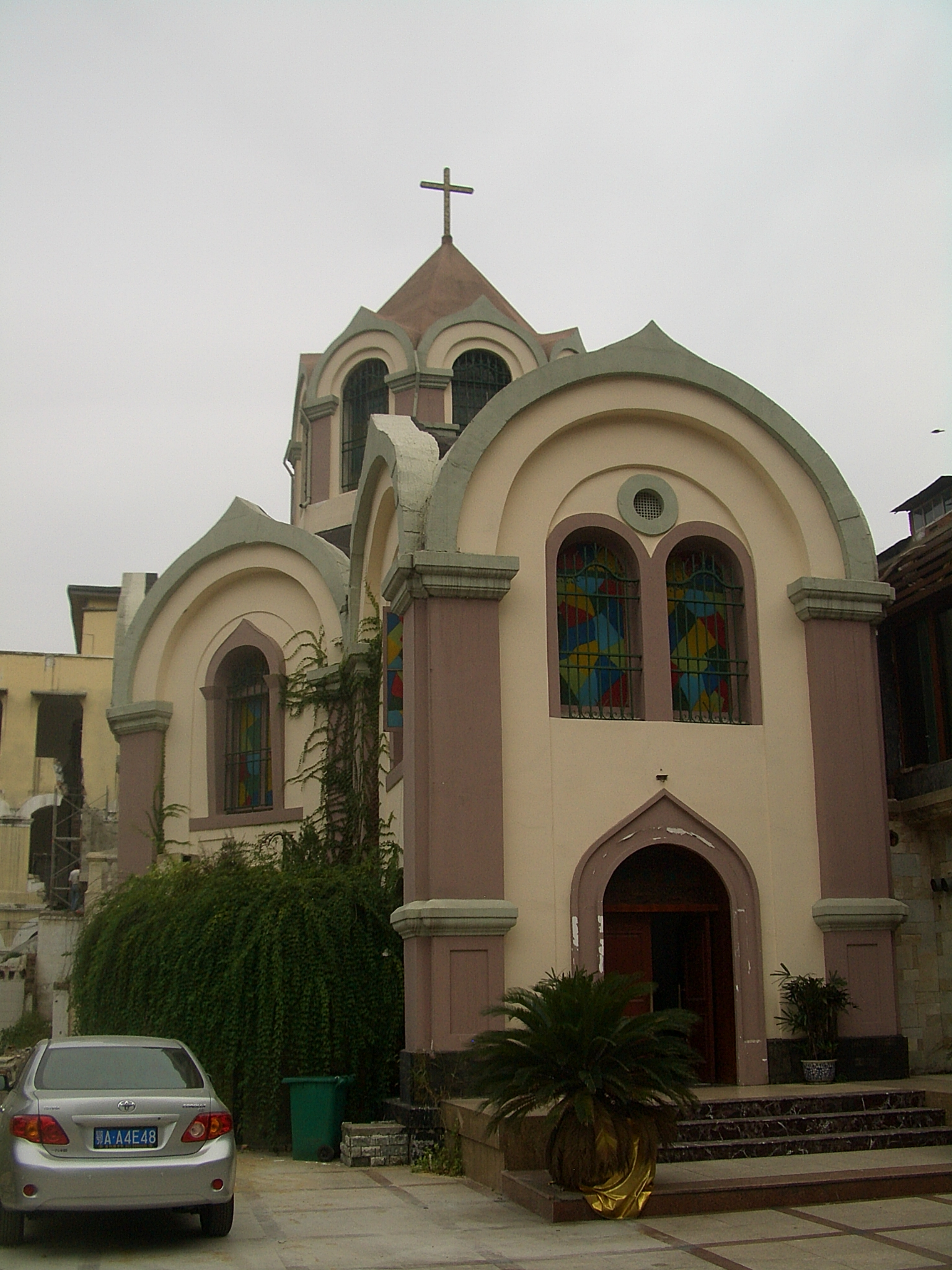 Former Orthodox church in Hankou (Wuhan)